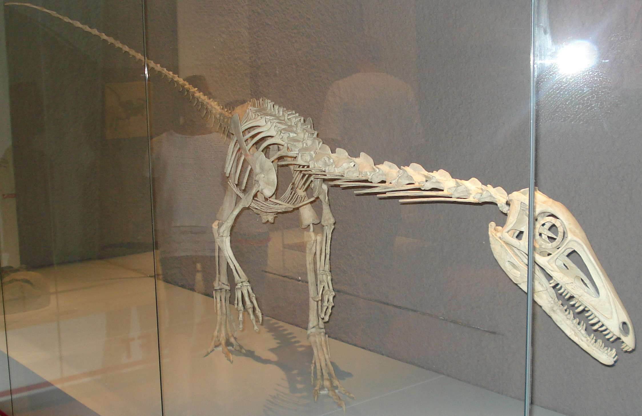 fossil of liliensternus